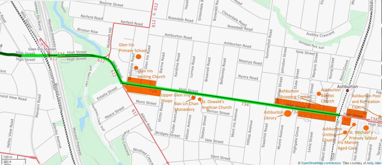 A map of the proposed extension to the Route 6 tram in Melbourne. Dark green (on the left) shows the current route, light green shows the proposed route, red lines show bus routes and orange shows points of interest. Created with OpenStreetMap and .